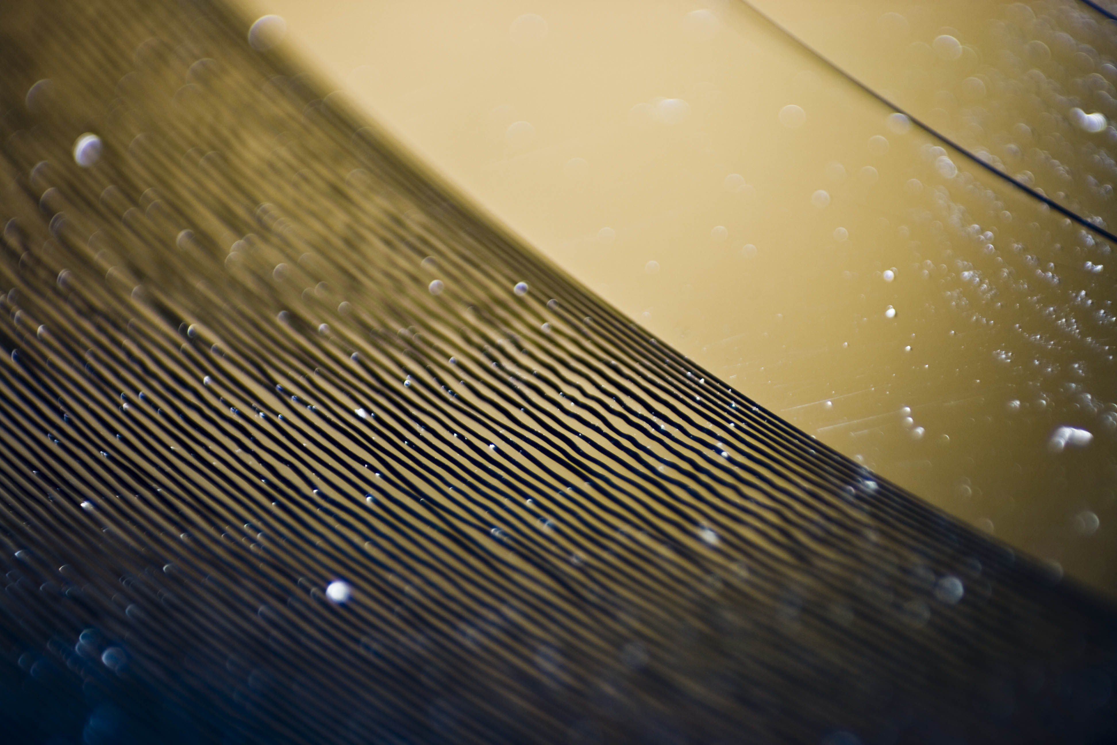 A macro shot of record grooves, with variation clearly visible.